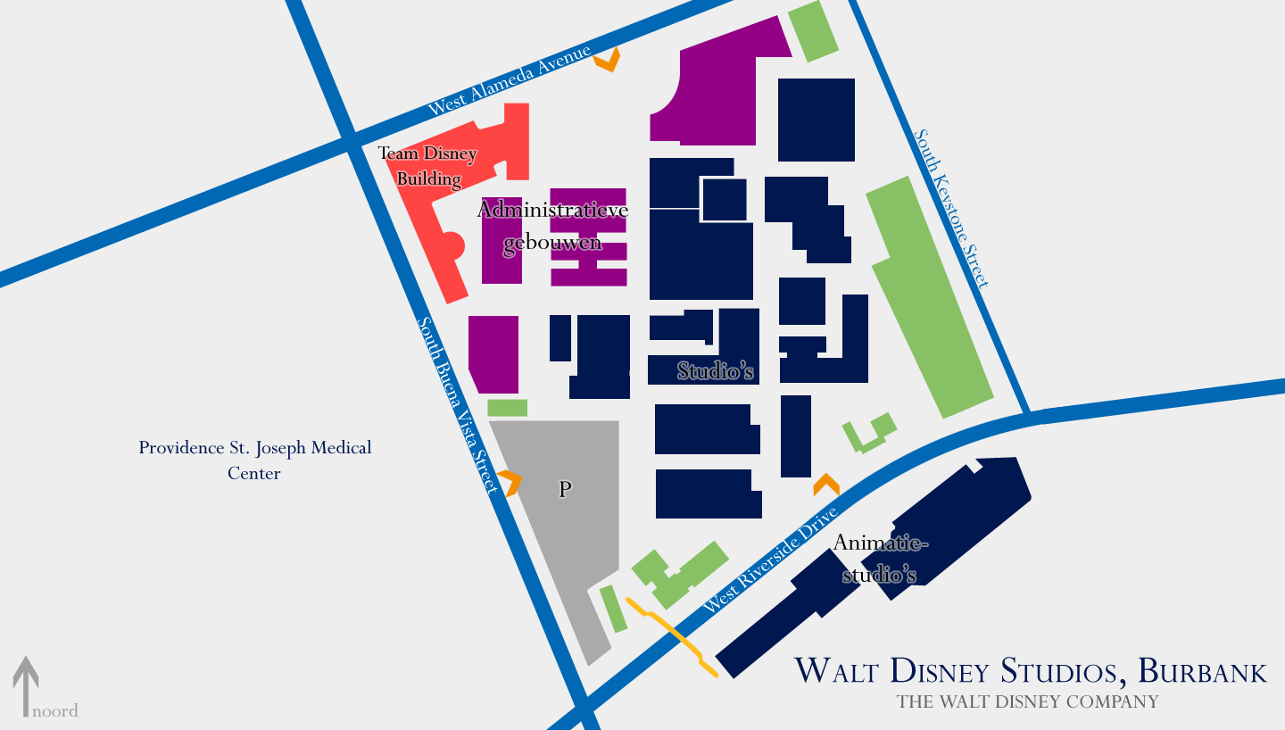 Map of Walt Disney Studios, Burbank.